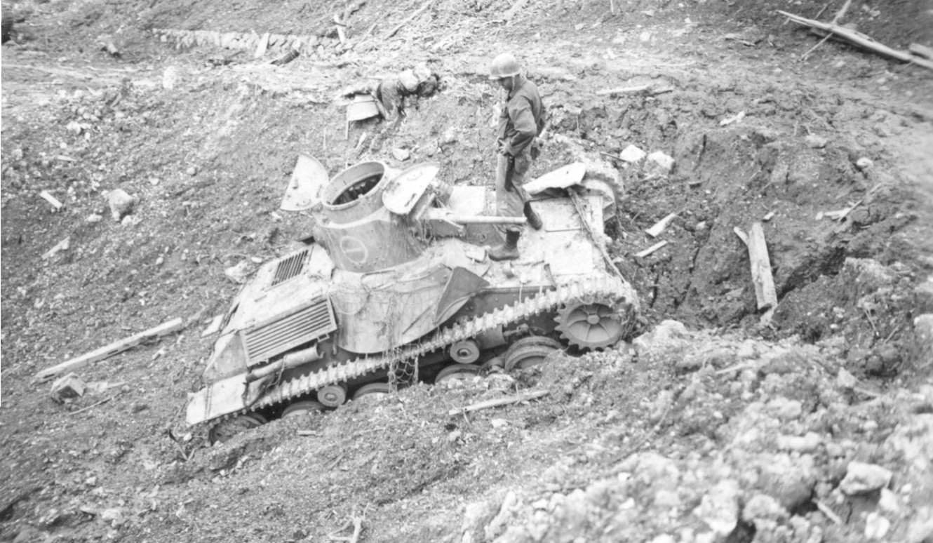 The Ha-Go tank of the 27th Tank Regiment in the hills around Shuri on Okinawa.